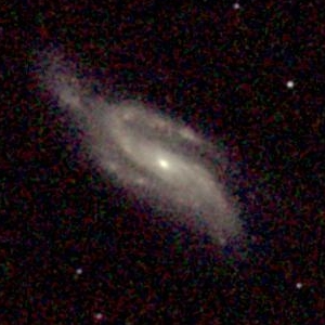 Galaxy NGC 4088